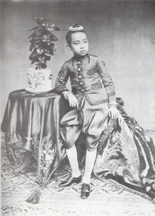 Younger Prince Vajiravudh is a son of King Rama V and Queen Saovabha Bongsri